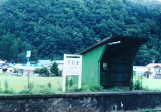 Keifuku Suwama Station name&waiting room (2001 August)